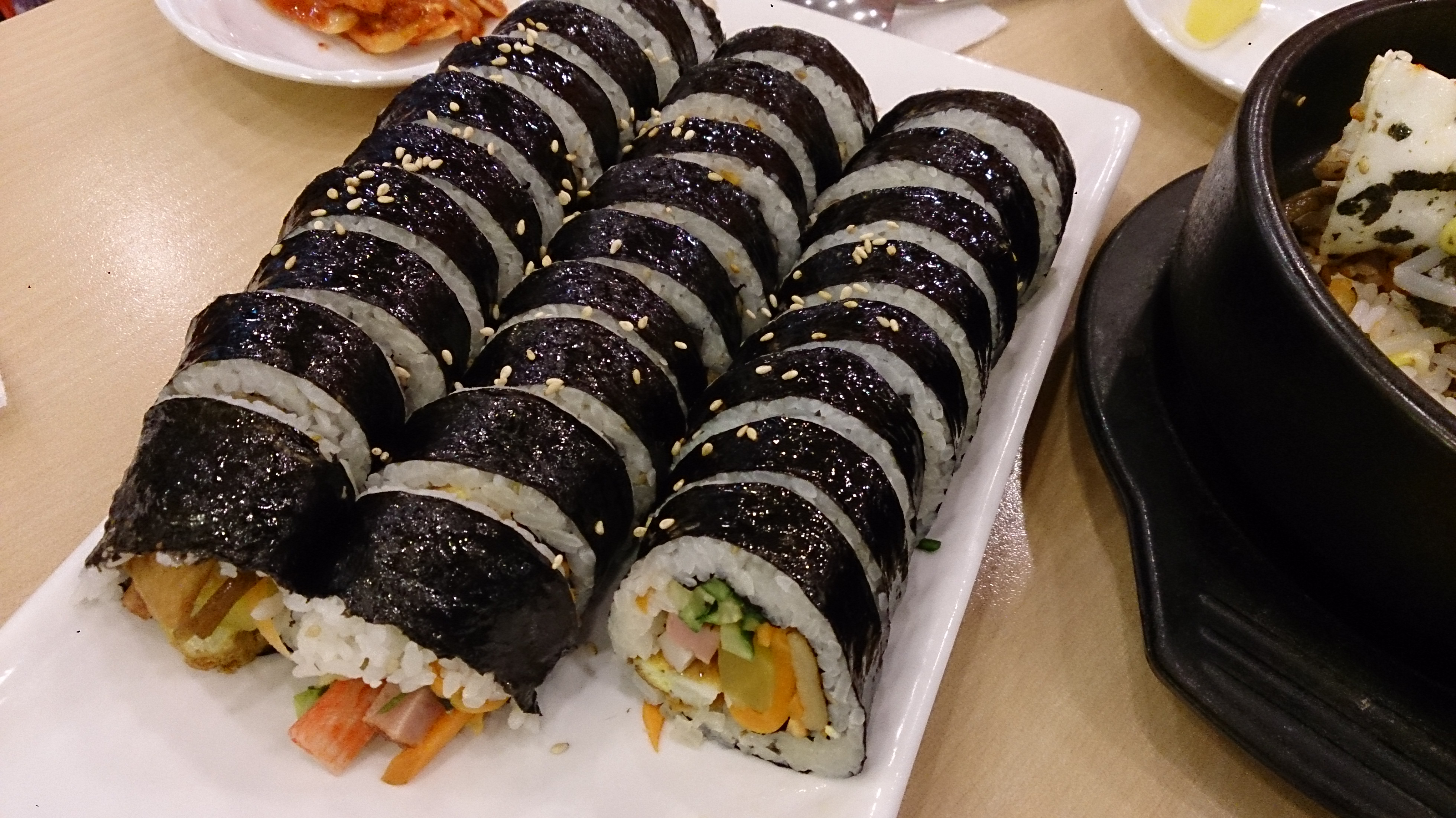 Common Korean snack